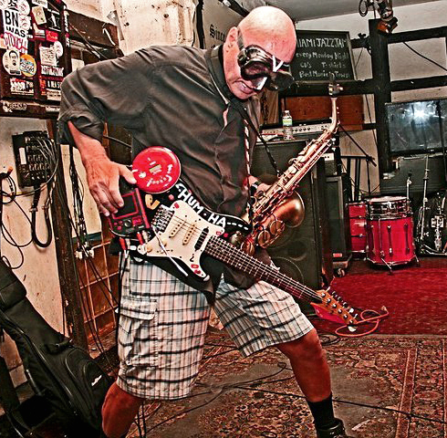 photo of Kenny Millions